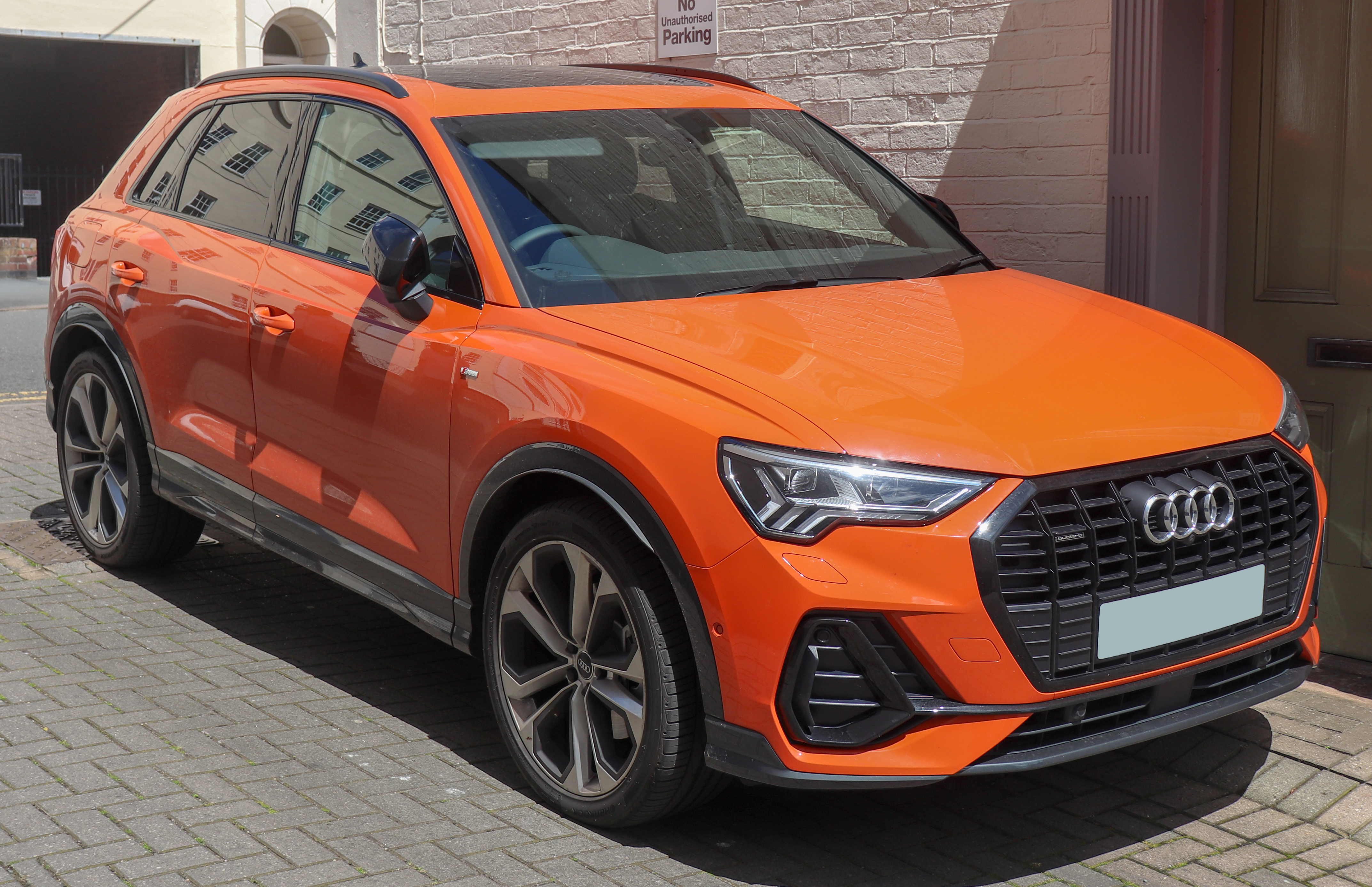 2019 Audi Q3 S Line 45 TFSi Quattro 2.0 Front Taken in Leamington Spa